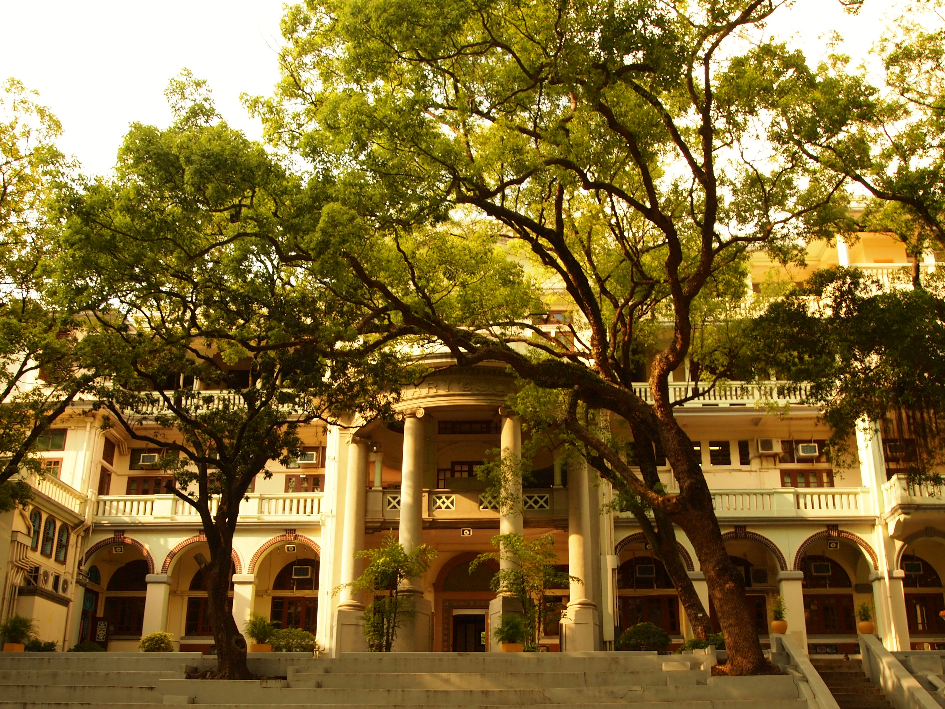 St. Mary's Main Building